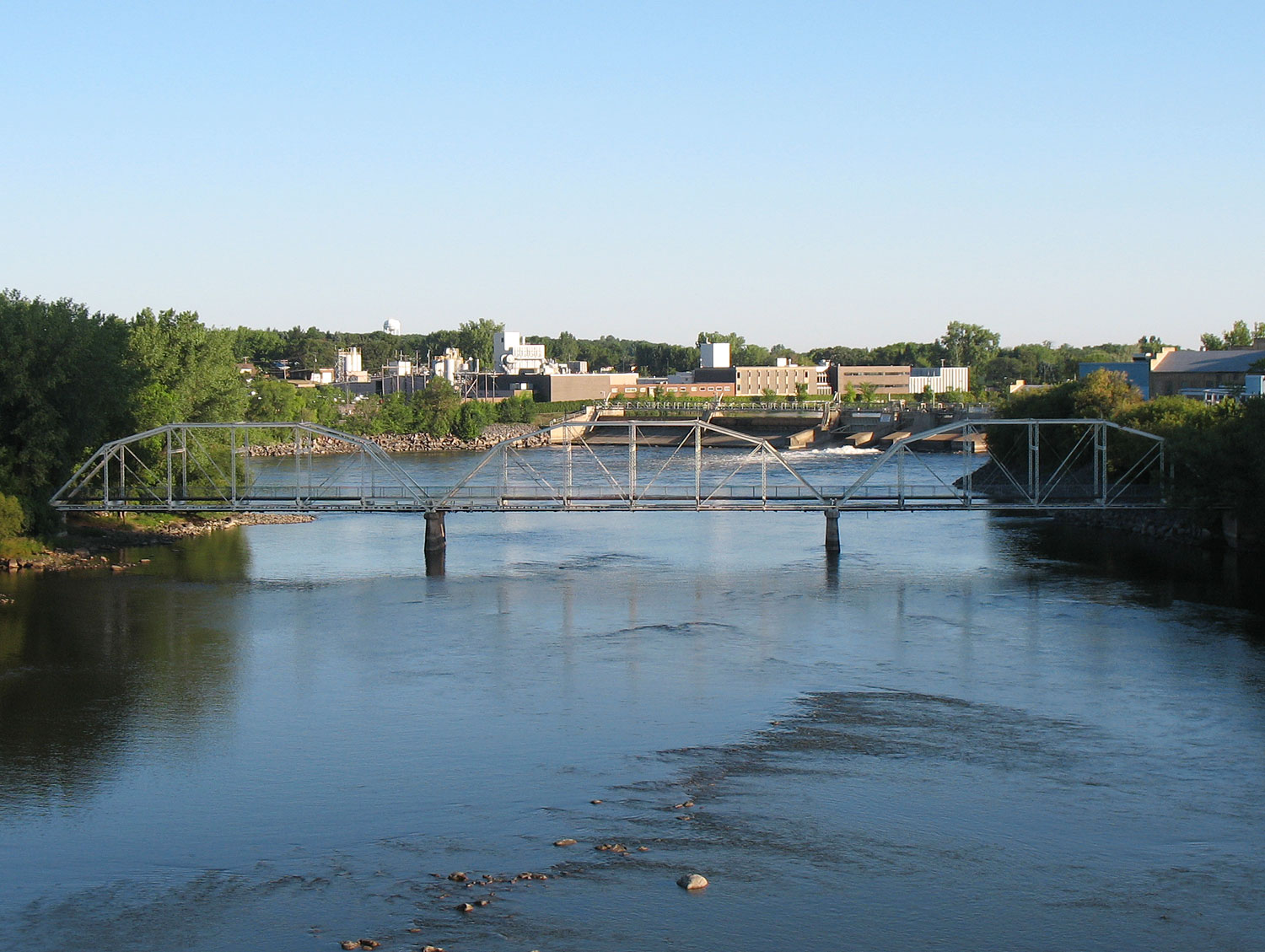 The Old Sartell Bridge located in the city of Sartell in the U.S. state of Minnesota.